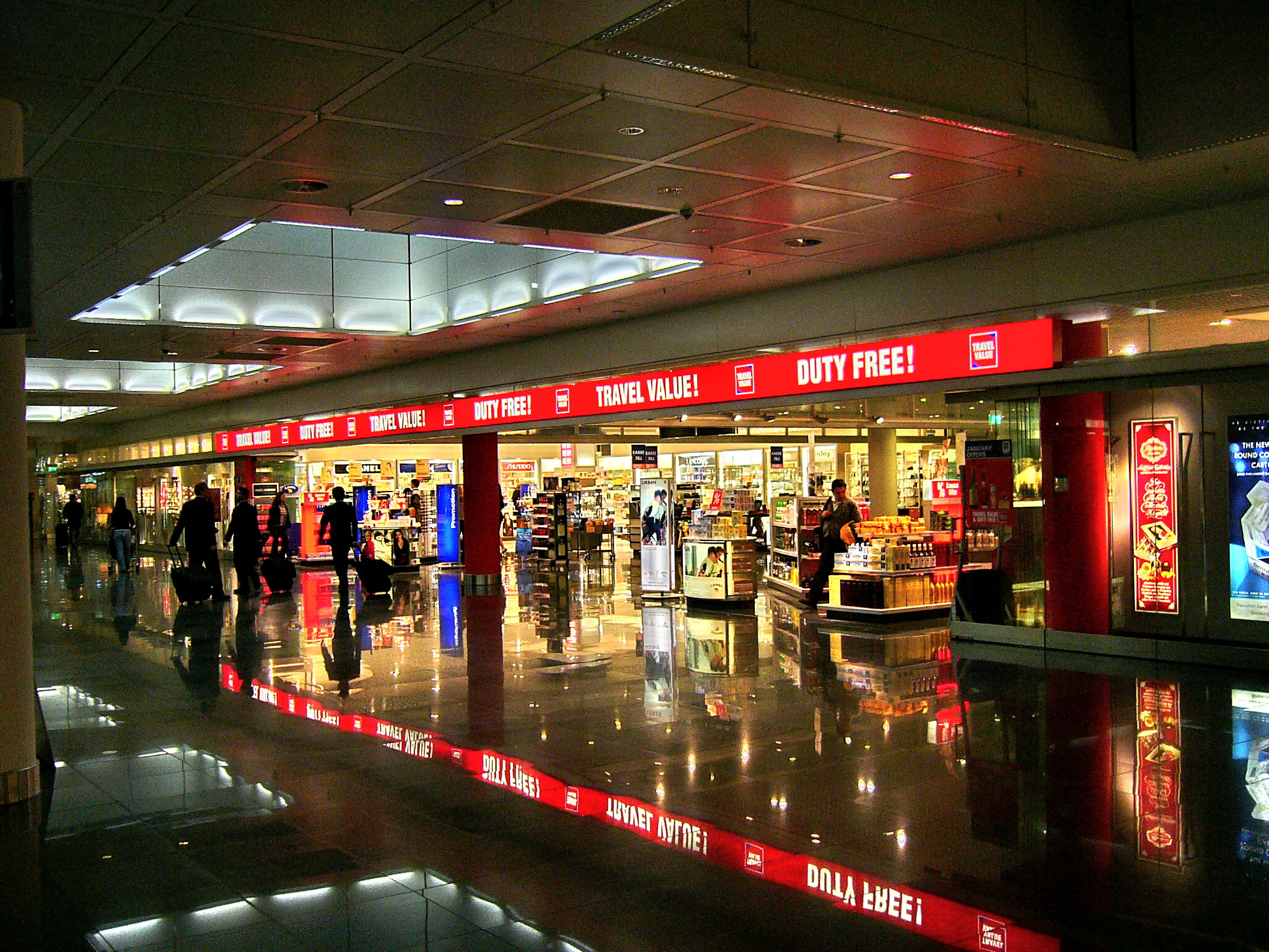 Duty-free shops at Franz Josef Strauss International Airport, Germany.